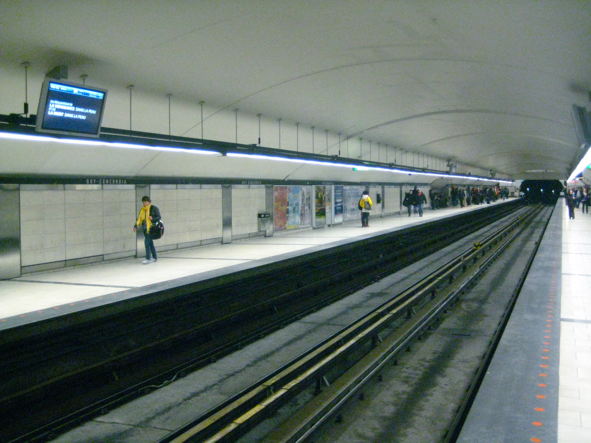 Guy-Concordia Metro station platform